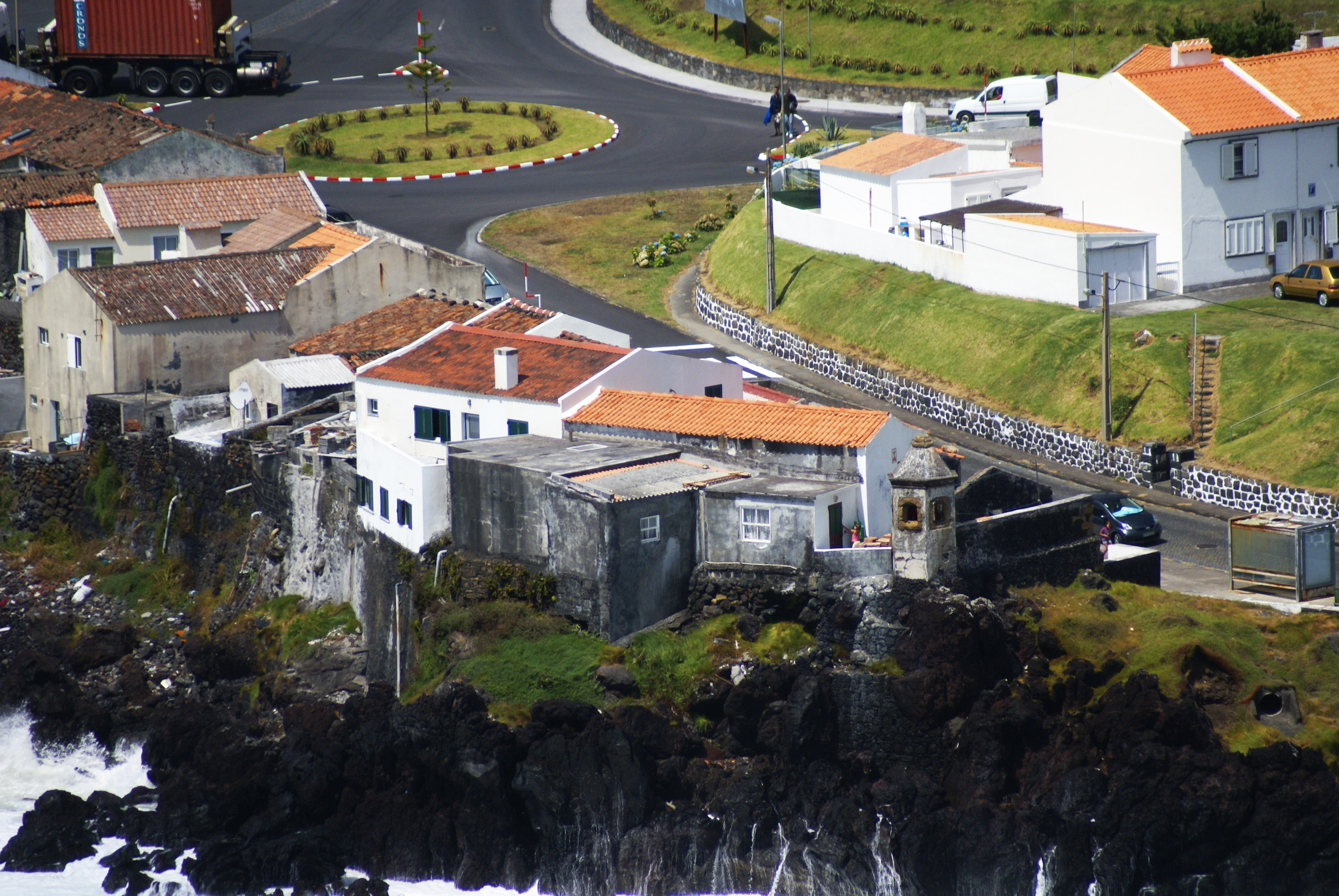 Bartizan and lookout, as seen from Monta Guia, Angústias, Horta, Faial (Azores), Portugal